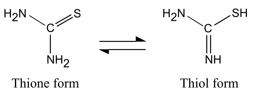 Illustration of the tautomers of thiourea